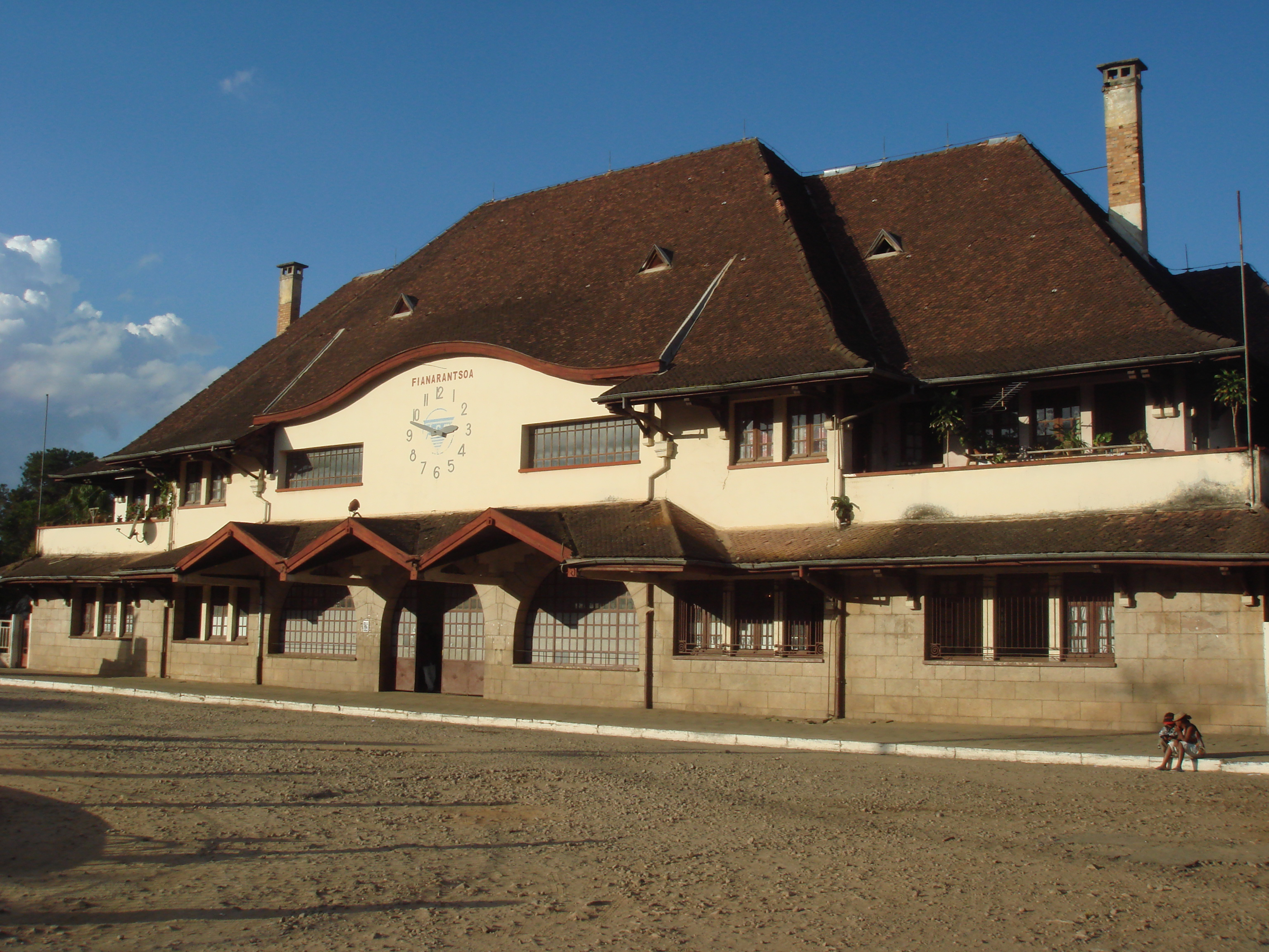 The Fianarantsoa railway station.